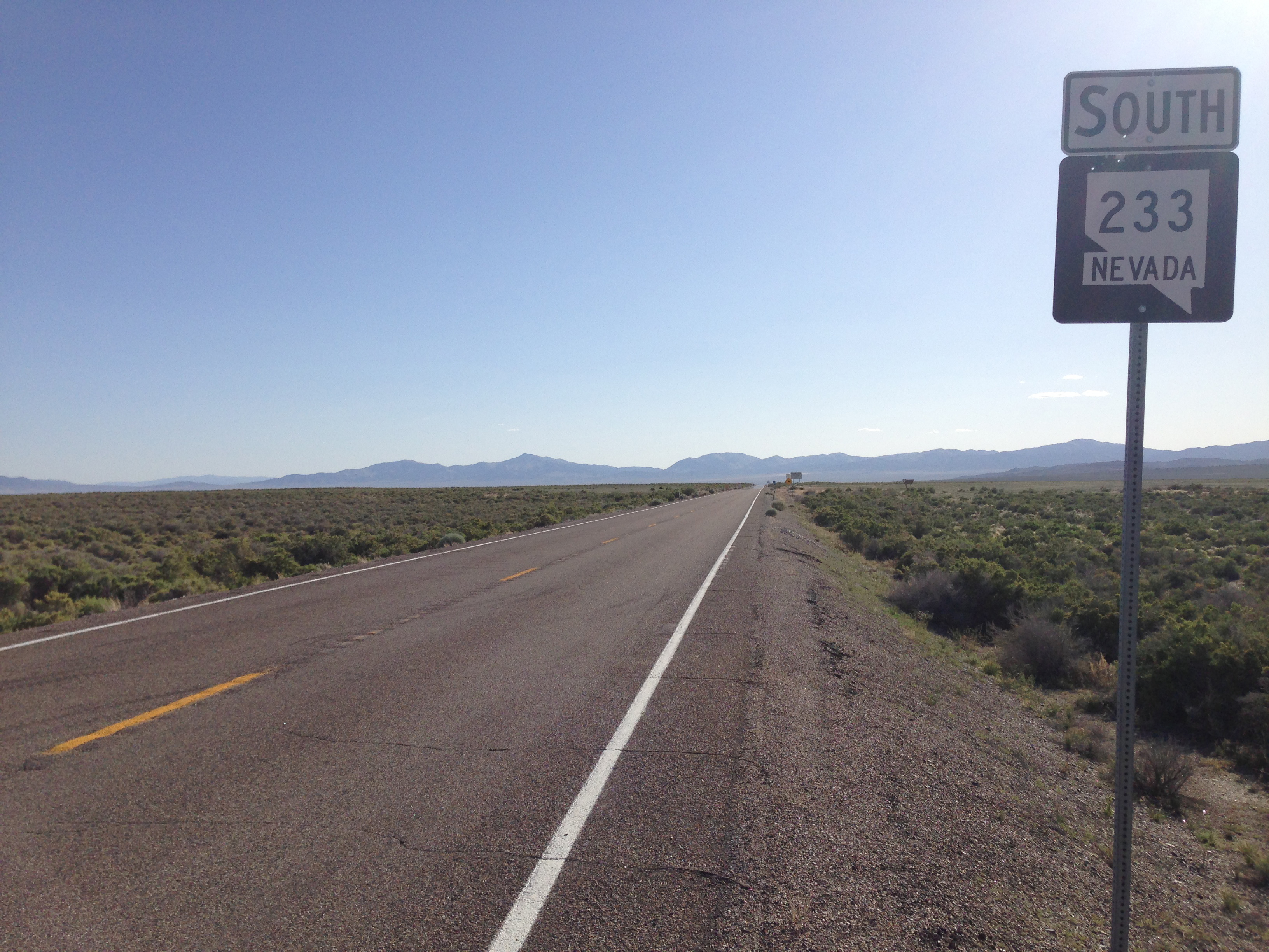 First reassurance sign along southbound Nevada State Route 233 (Montello Road) in Elko County, Nevada